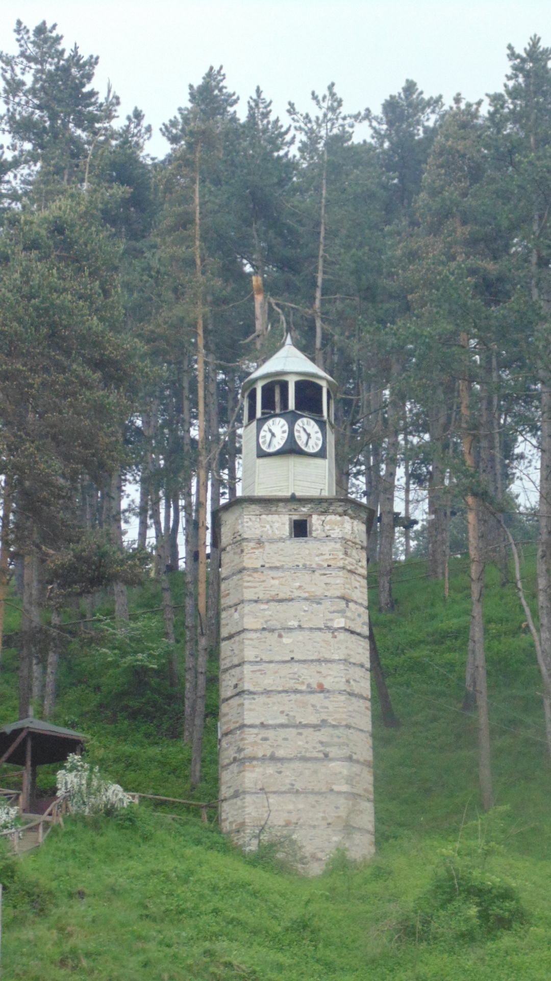 Rakitovo Clock tower